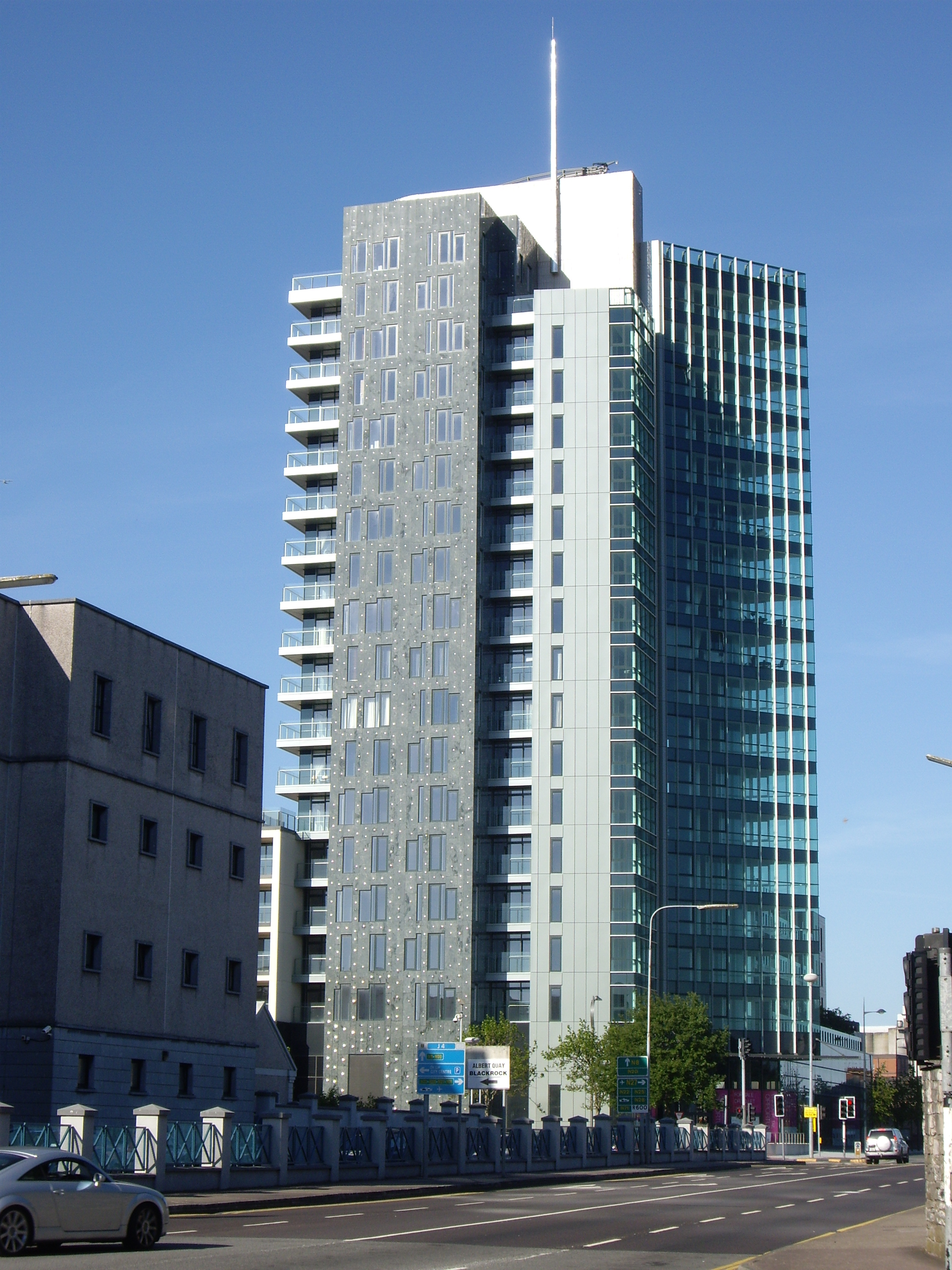 The Elysian tower, Cork, at the corner of Eglinton St and Albert St; taken from the junction of Copley St and Anglesea St